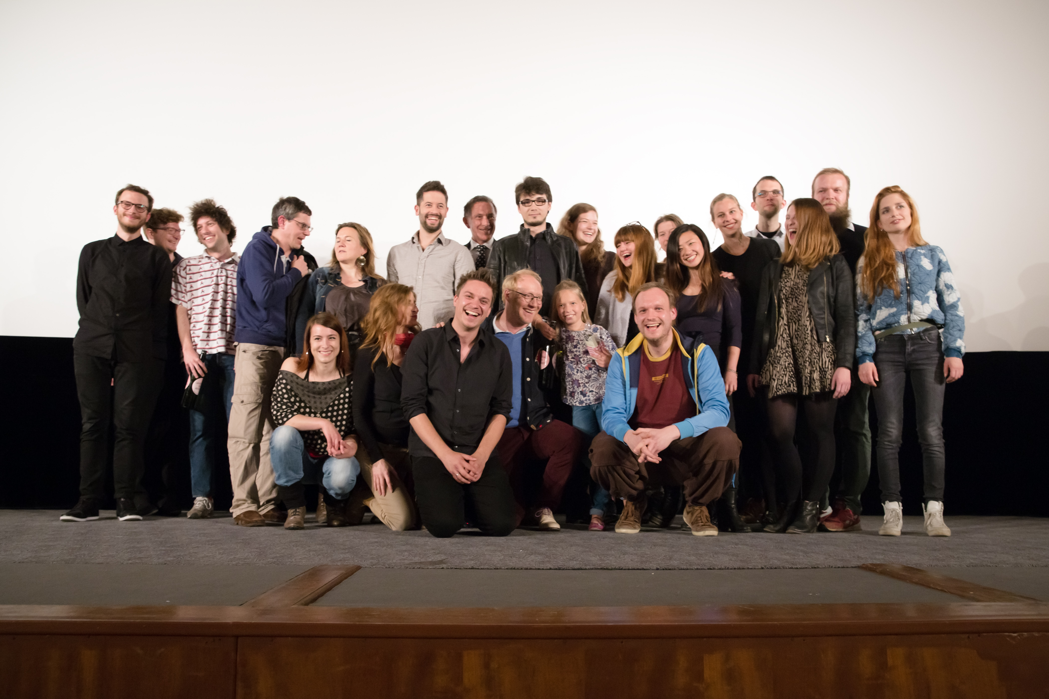 Benjamin Gruber and Daniel Ebner, heads of the short film festival Vienna Independent Shorts, with filmmaker Peter Millard on the left with the cast and crew of the movie Everything Will Be Okay including actors Julia Pointner and Simon Schwarz and director Patrick Vollrath at the opening of VIS 2015 at Gartenbaukino in Vienna, Austria.